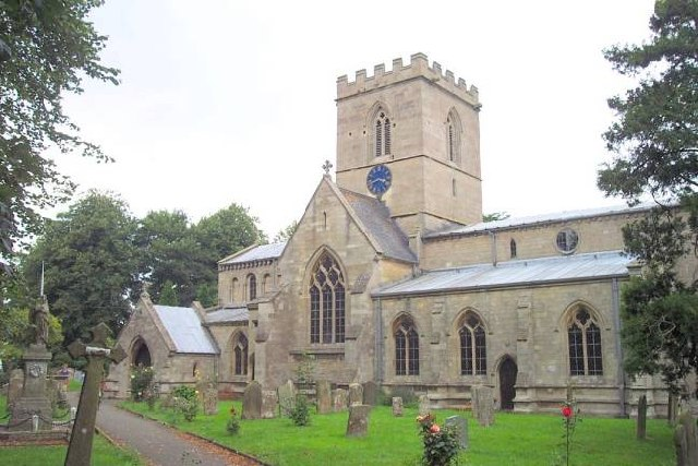 St Swithin's parish church, Bicker, Lincolnshire, seen from the southeast